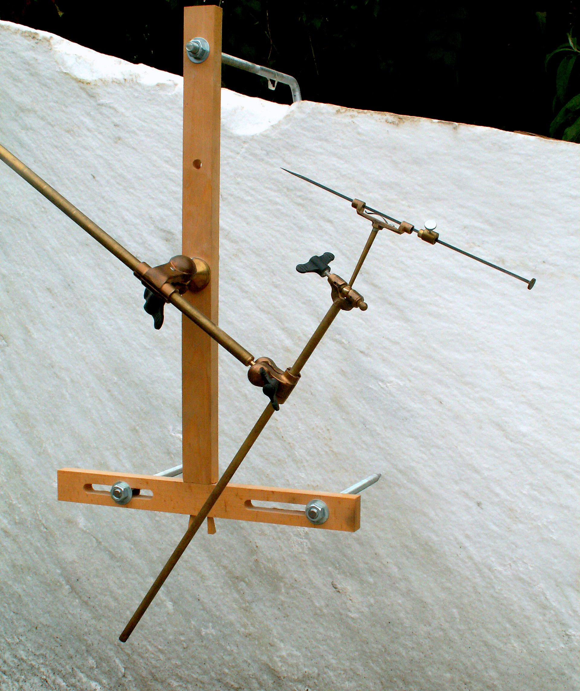 a pointing machine as used by sculptors to copy a model in stone or wood.